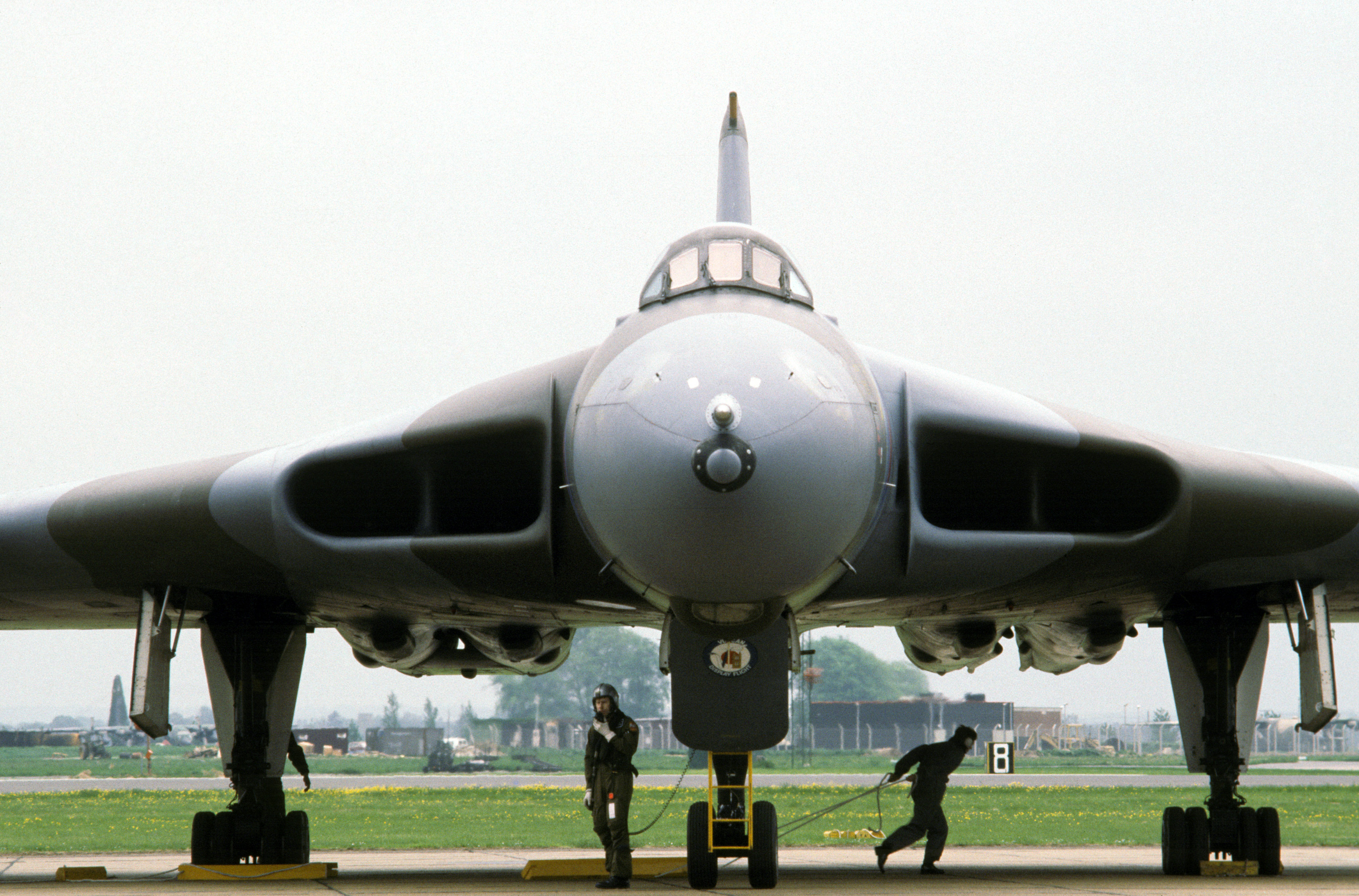 Ground crewmen prepare a Royal Air Force Avro Vulcan Display Team Vulcan B. Mk 2 (Most likely XL426) aircraft for a demonstration during Air Fete '85.